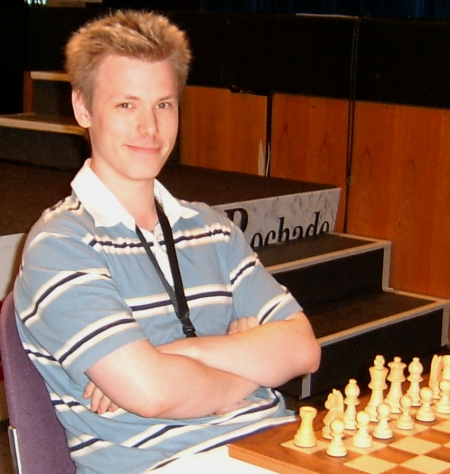 Fabian Döttling, German chess grandmaster